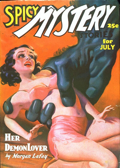 Cover of the pulp magazine Spicy Mystery Stories (July 1936, vol. 3, no. 3) featuring "Her Demon Lover" by Morgan Lafay.